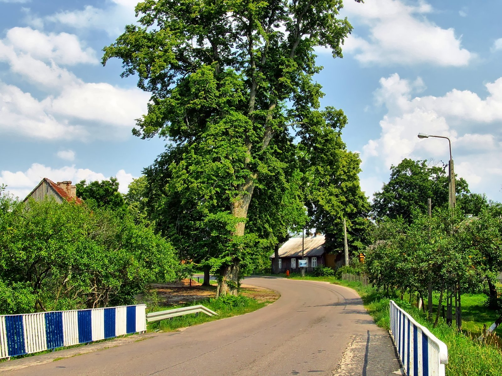 Bridge over the River Wdą